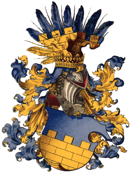 Historical coat of arms of Upper Lusatia. It is similar to the coat of arms of the city of Bautzen. The original city coat of arms was later also used for all of Upper Lusatia.